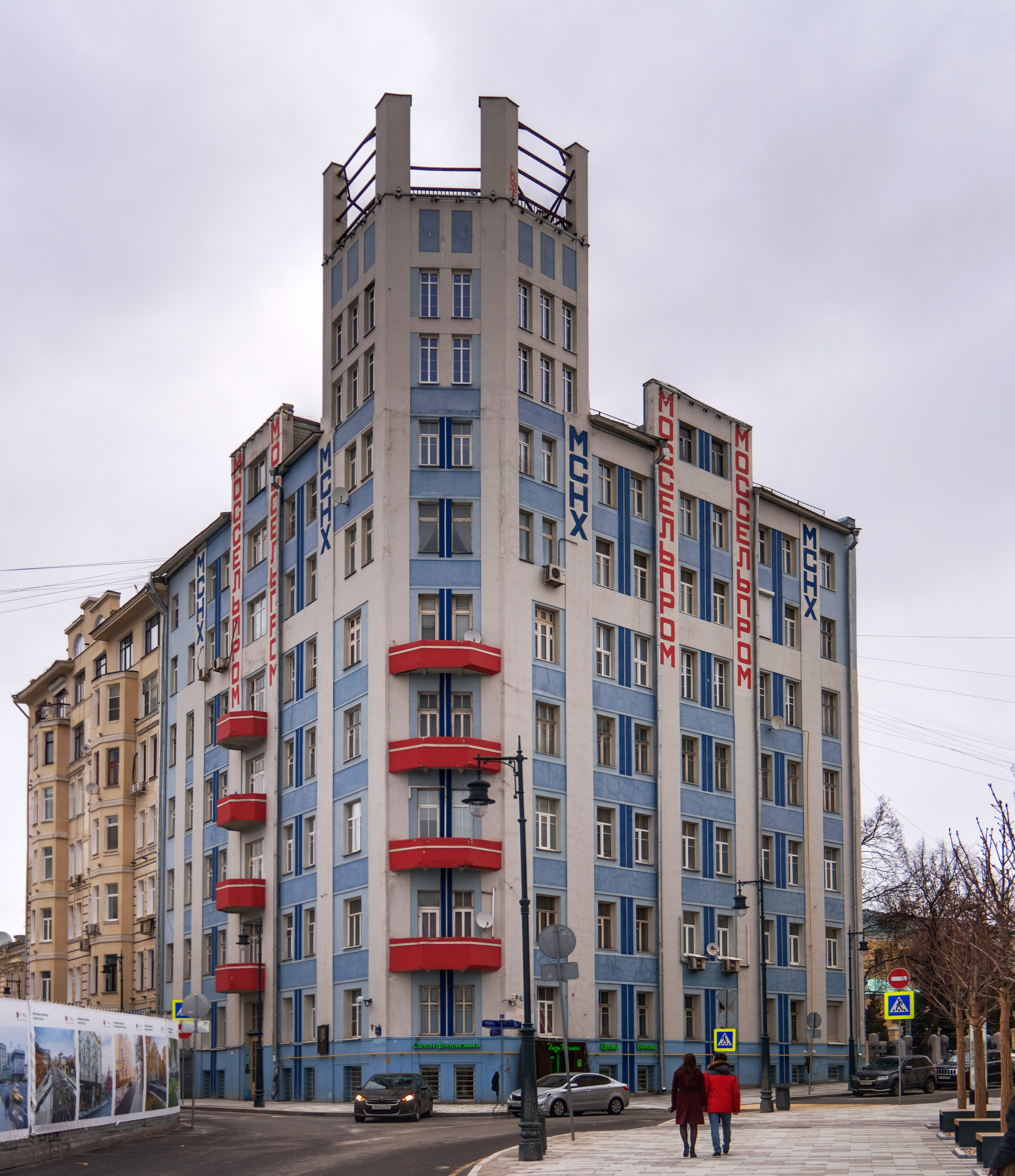 Mosselprom Building, Kalashny Lane 2/10, Moscow, Russia